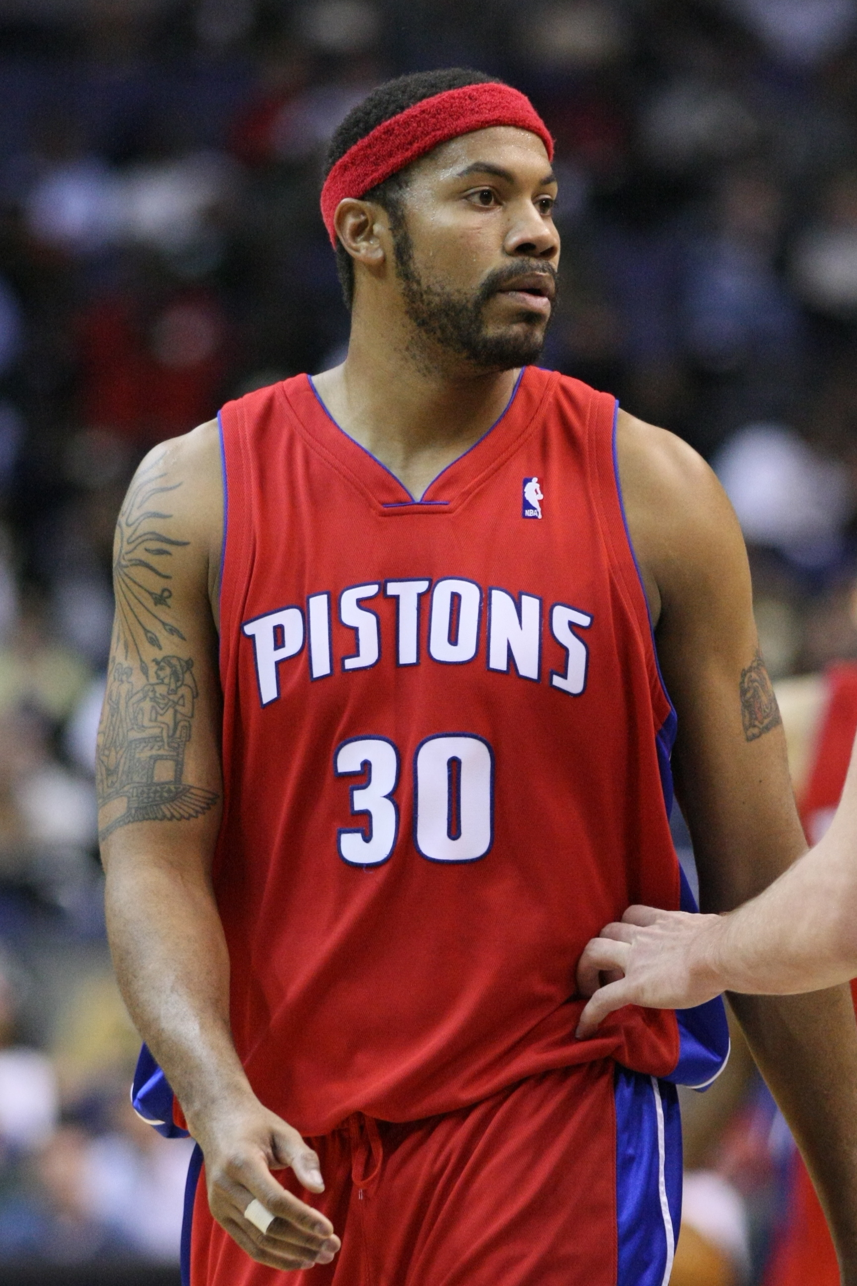 NBA player, Rasheed Wallace. (Cropped version from File:Rasheed_Wallace_2.jpg)